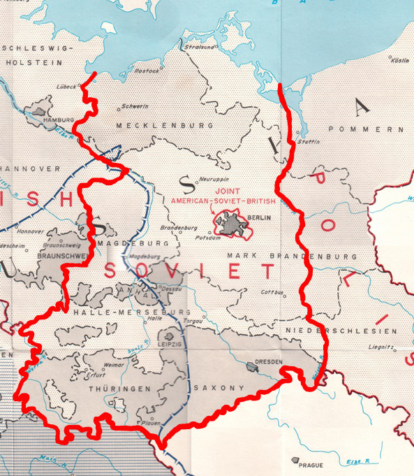 Map of the occupation zones of Germany in 1945. From Earl F. Ziemke, The U.S. Army in the Occupation of Germany, 1975. Library of Congress Catalog Card Number 75-619027